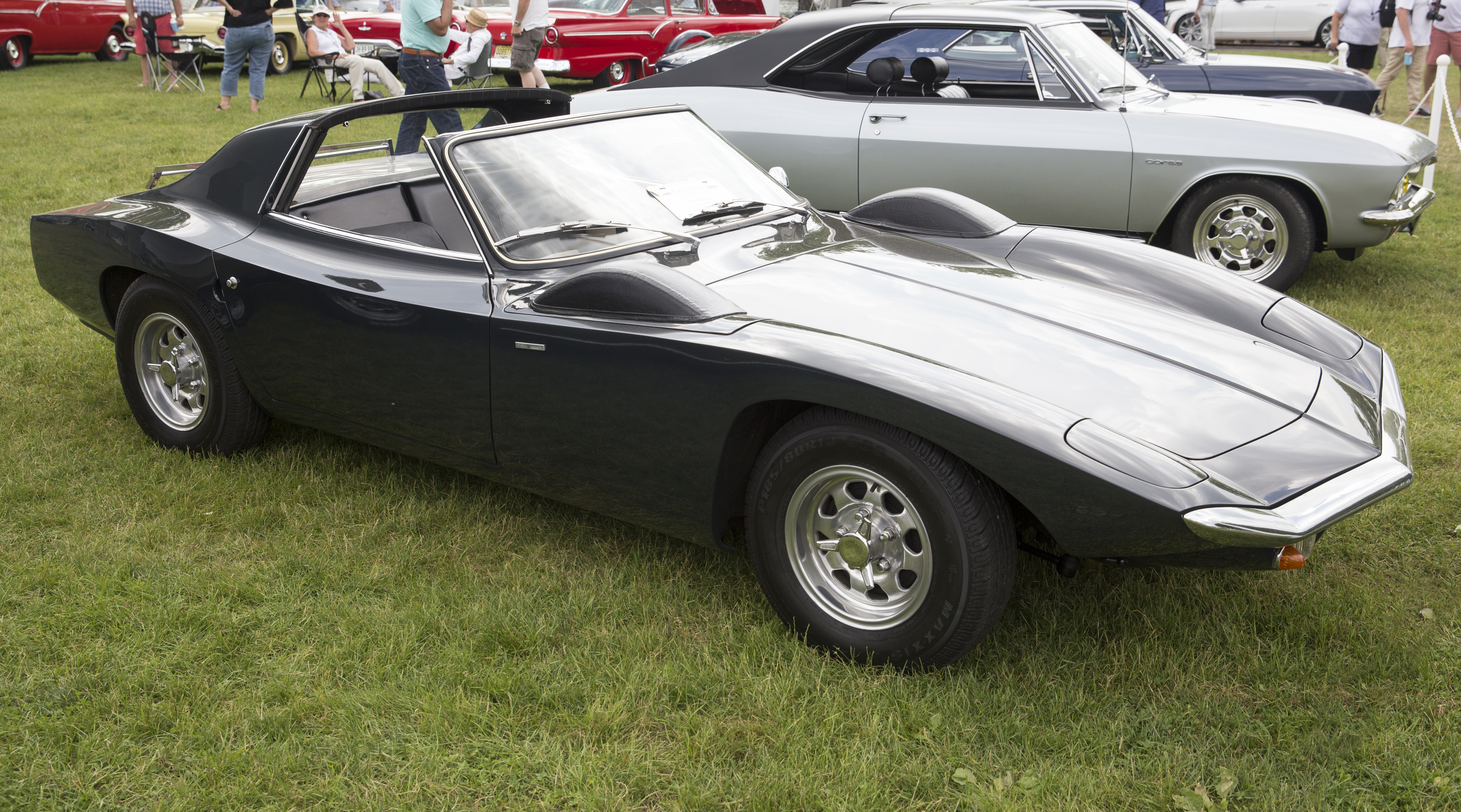 The only Fitch Phoenix ever made, seen at the 2018 Greenwich Concours d'Elegance. 170hp Corvair Monza engine, hamstrung by the upcoming safety legislations that killed off the Corvair upon which it was based.